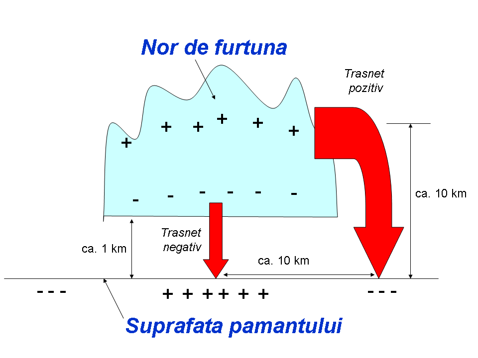 Sketch of lightning/thunderbolt types.